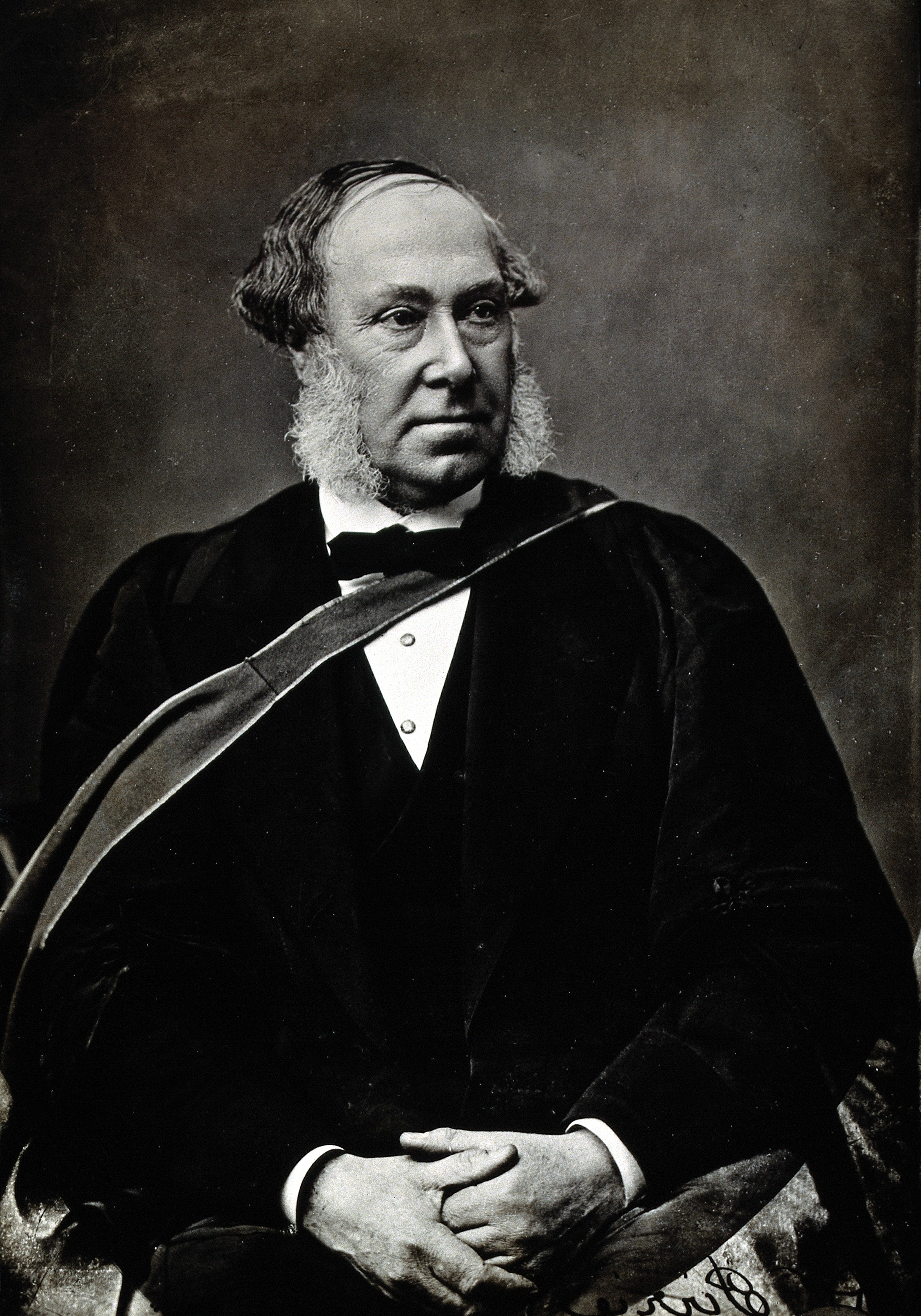 William Pirrie. Photograph. Iconographic Collections Keywords: portrait photographs